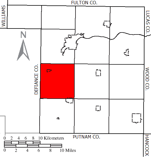 Made by the US Census and modified by myself